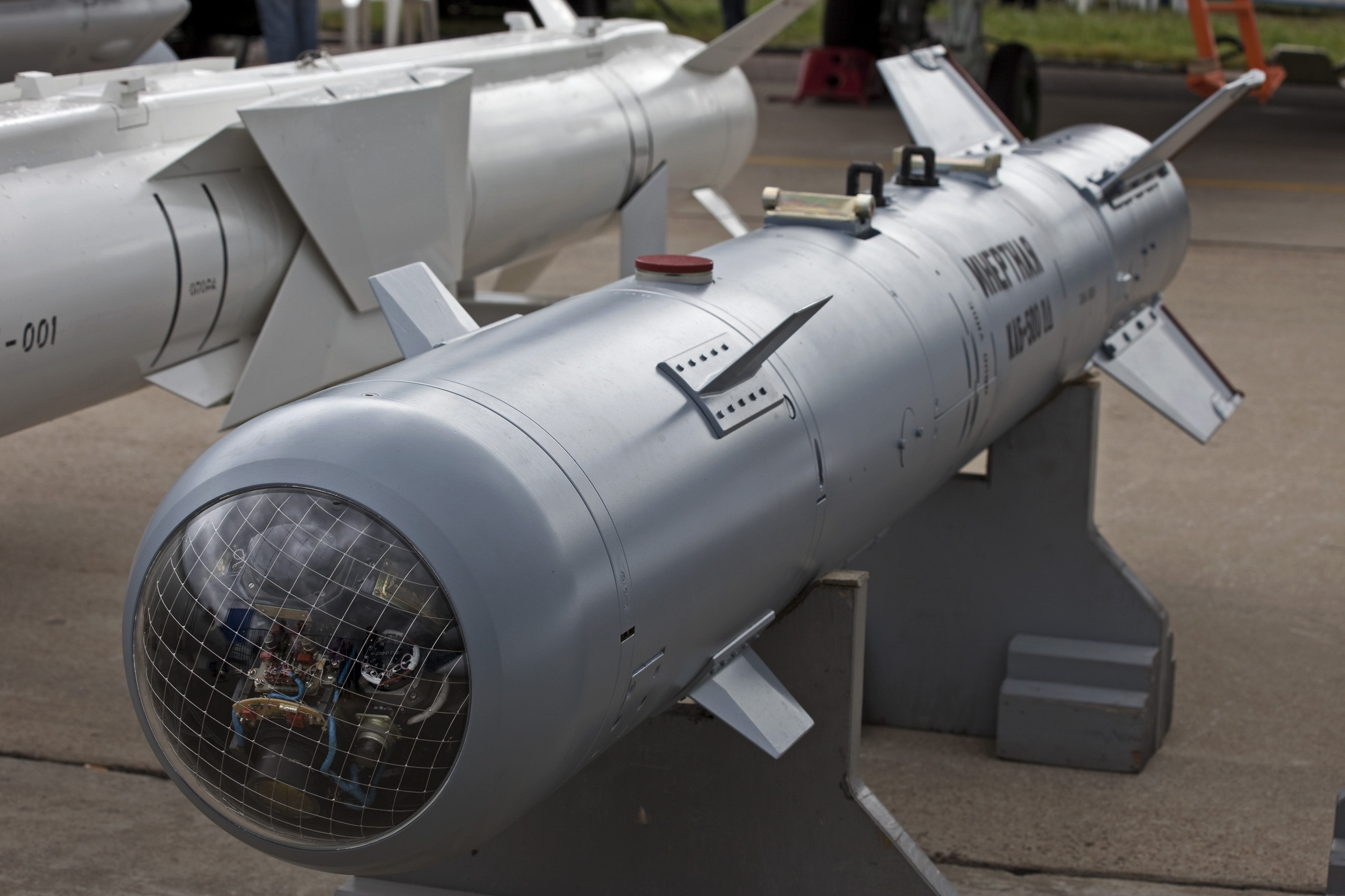 The smart bomb KAB-500OD at MAKS 2009.